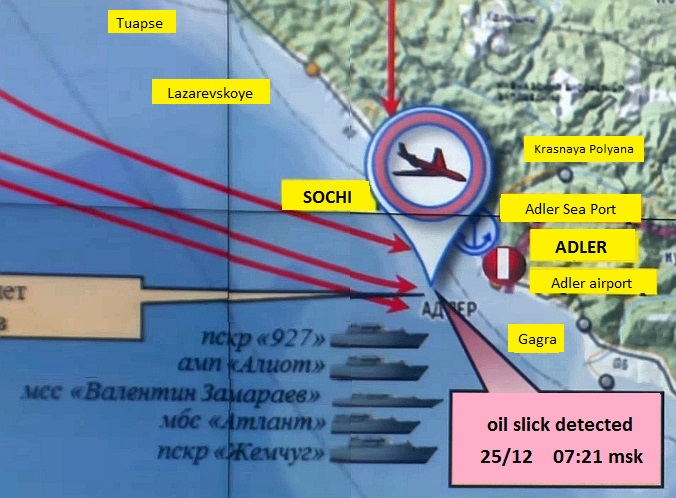 2016 Russian Defence Ministry Tupolev Tu-154 crash site sketch